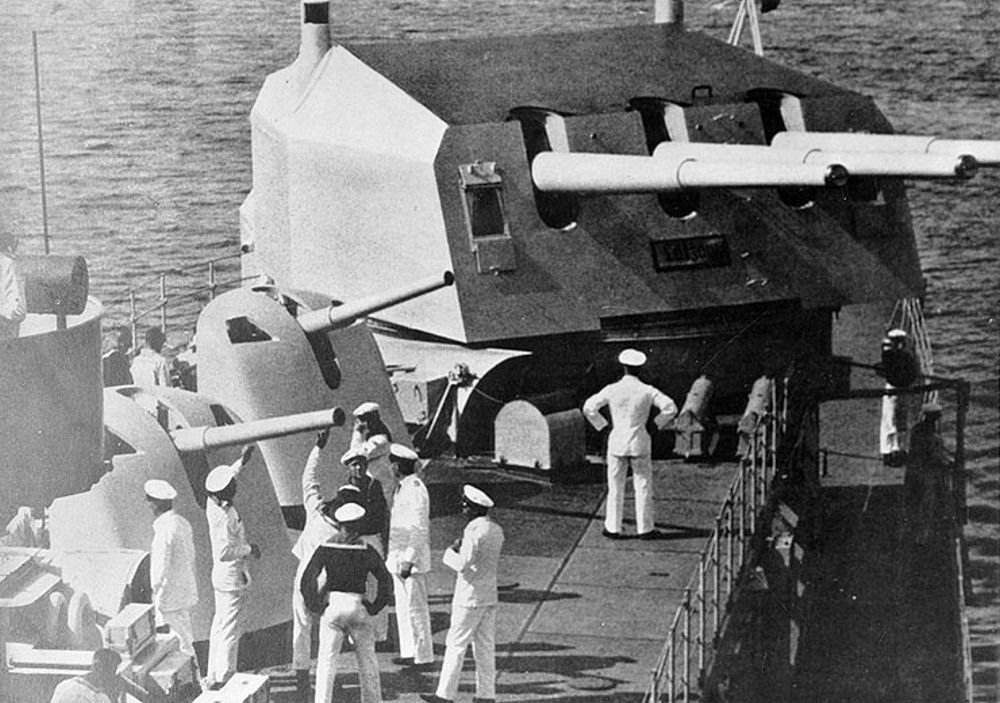 German Light Cruiser Königsberg (ship´s after superstructure deck with two 8.8cm anti-aircraft guns and a 15cm triple gun turret)